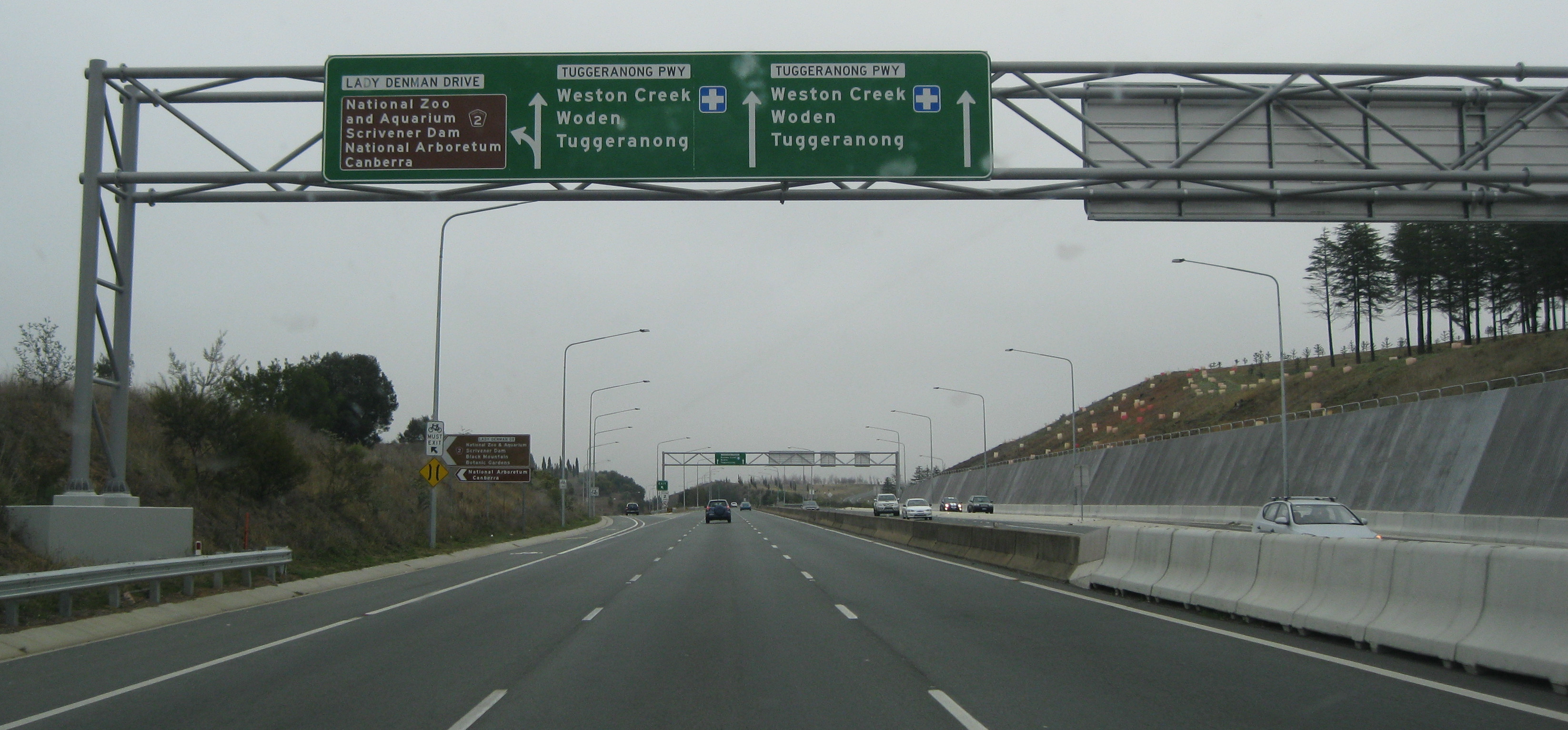 Southbound signage gantries on the Tuggeranong Parkway, just north of Lady Denman Drive interchange. Note: Very foggy weather.